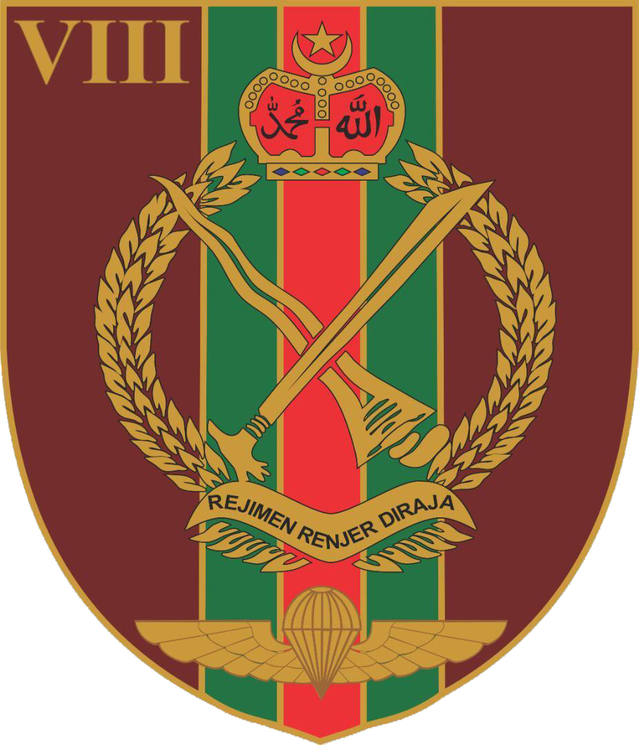 Logo terbaru